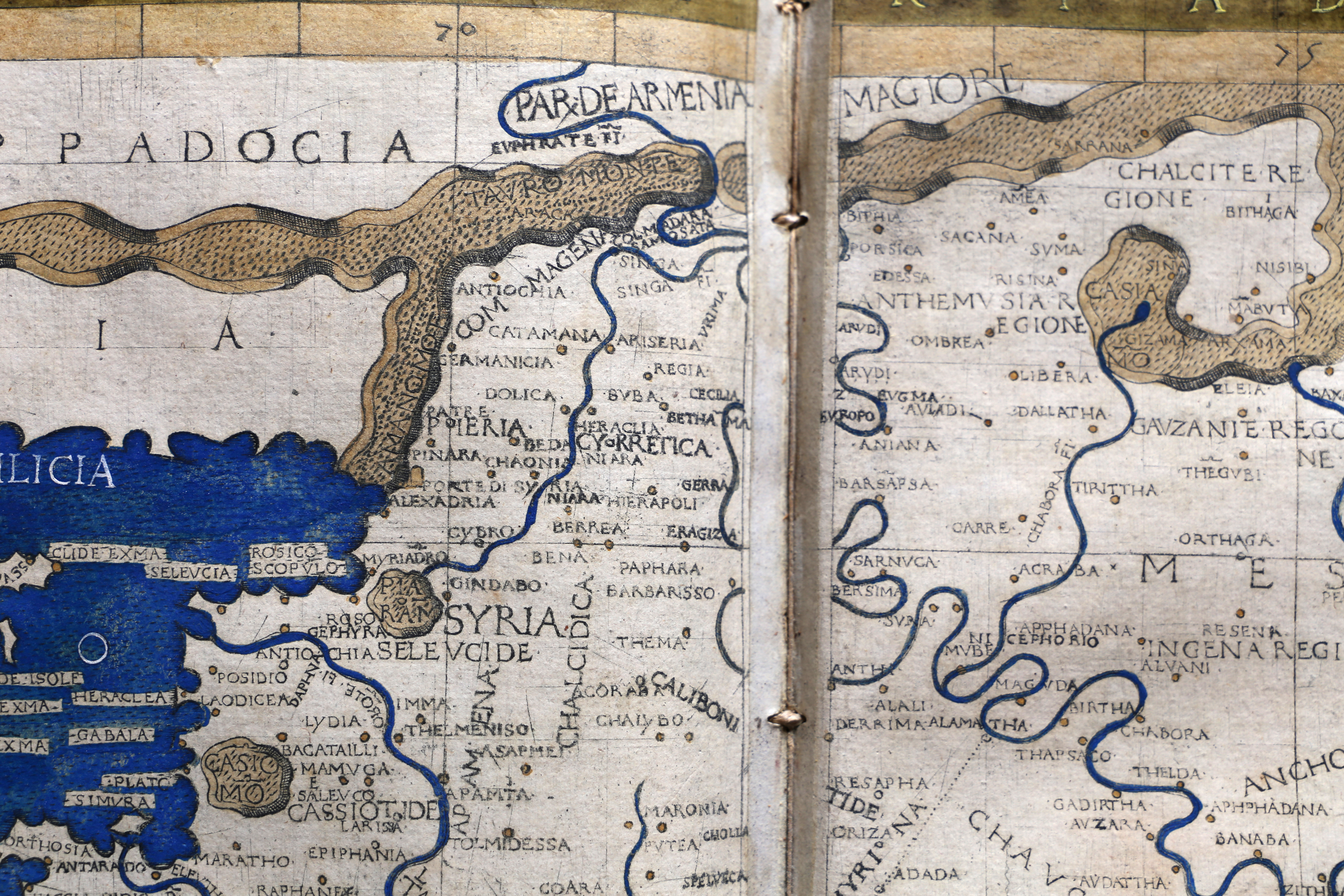 Geographia by Francesco Berlinghieri (Crusca)